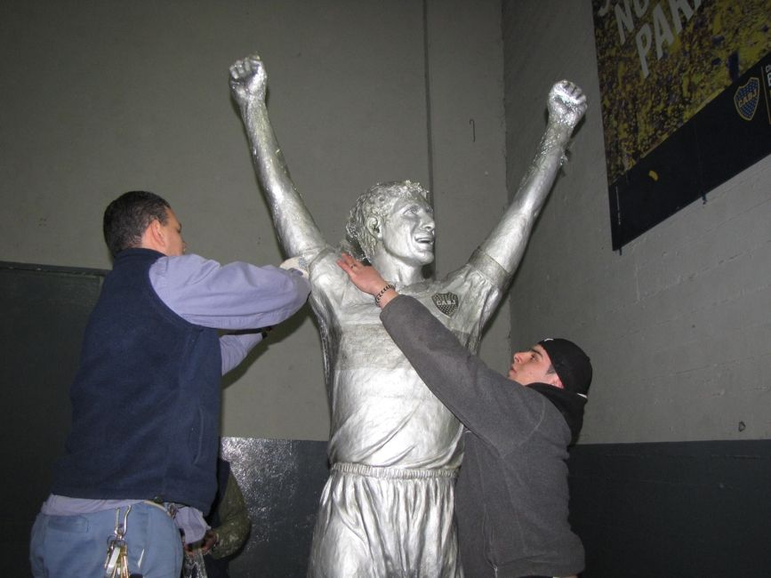 Memorial Palermo, removing the protective film